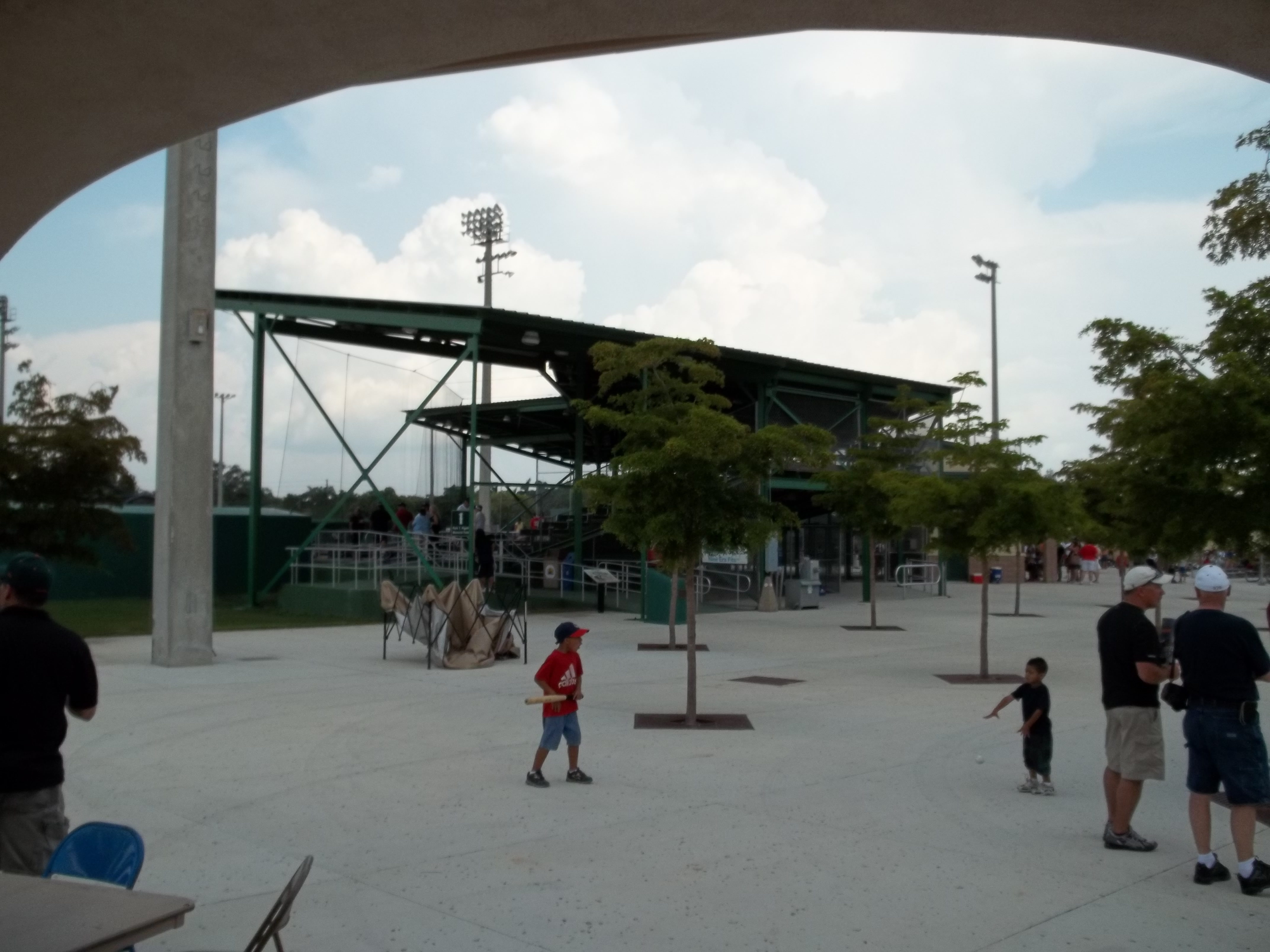 Fort Myers, Florida: Terry Park Ballfield